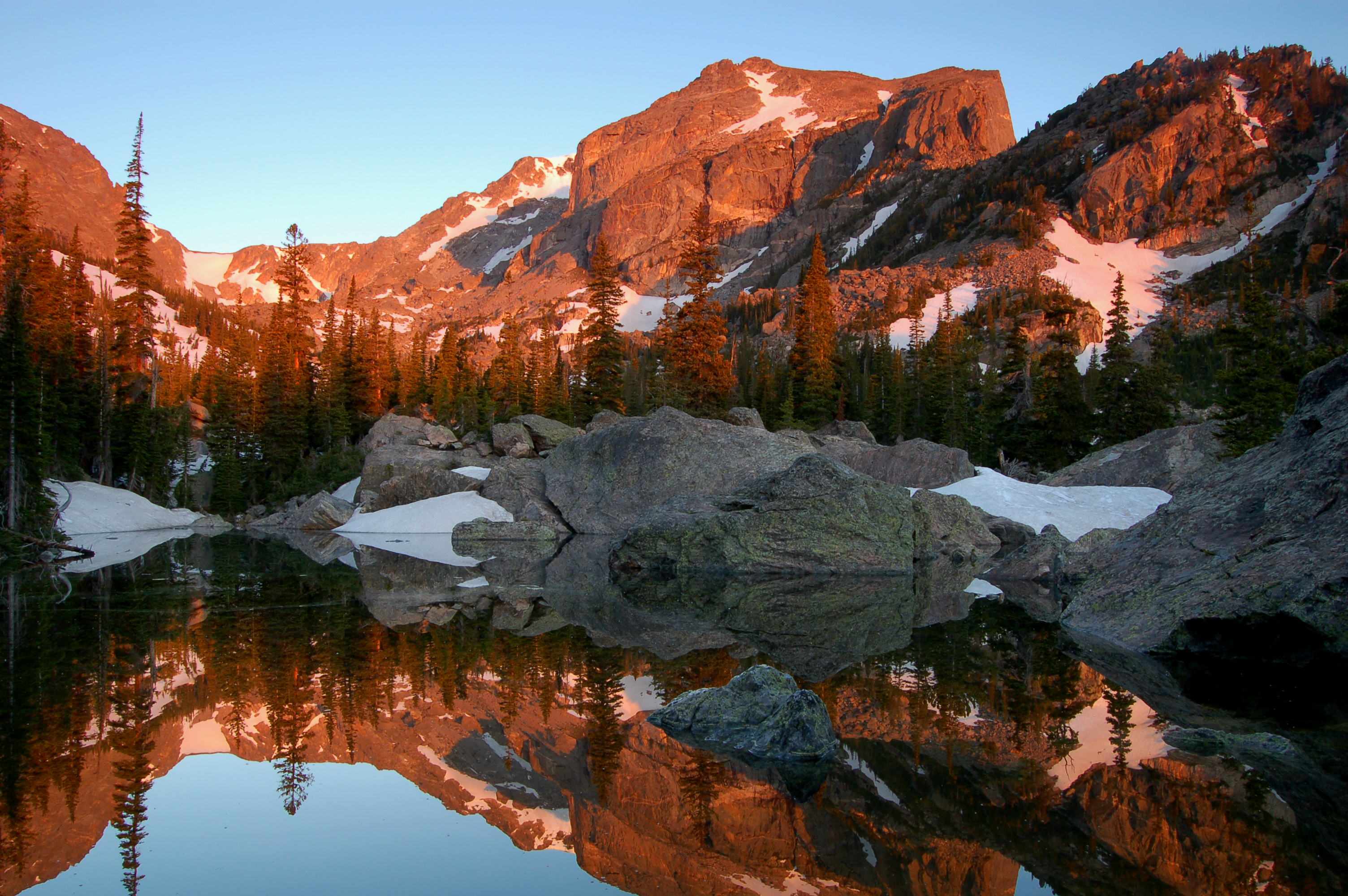 Hallet's Peak reflected in Lake Haiyaha at darn in Rocky Mountain National Park. NPS/Debra Miller